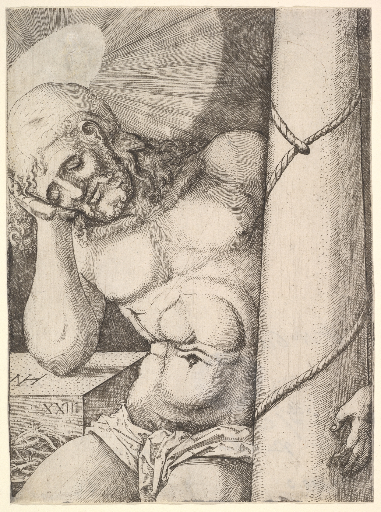 Print; Prints